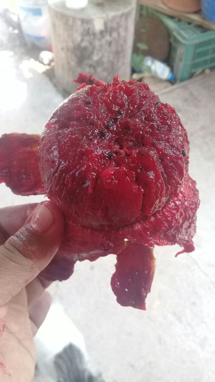 fruto de cactácea